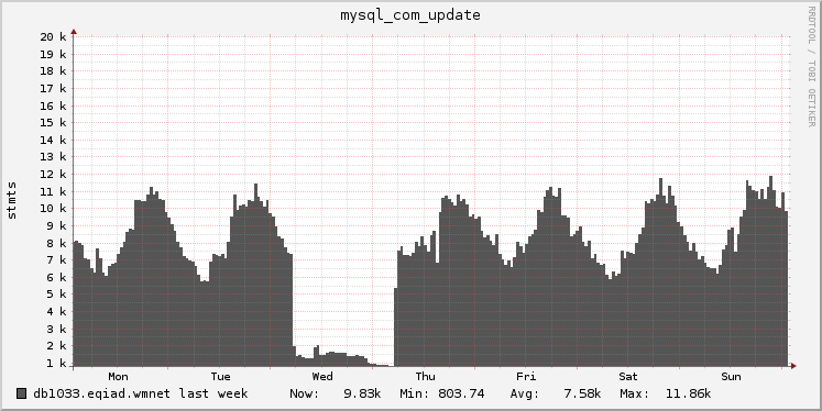 Updates on a Wikipedia database server the week of the SOPA blackout